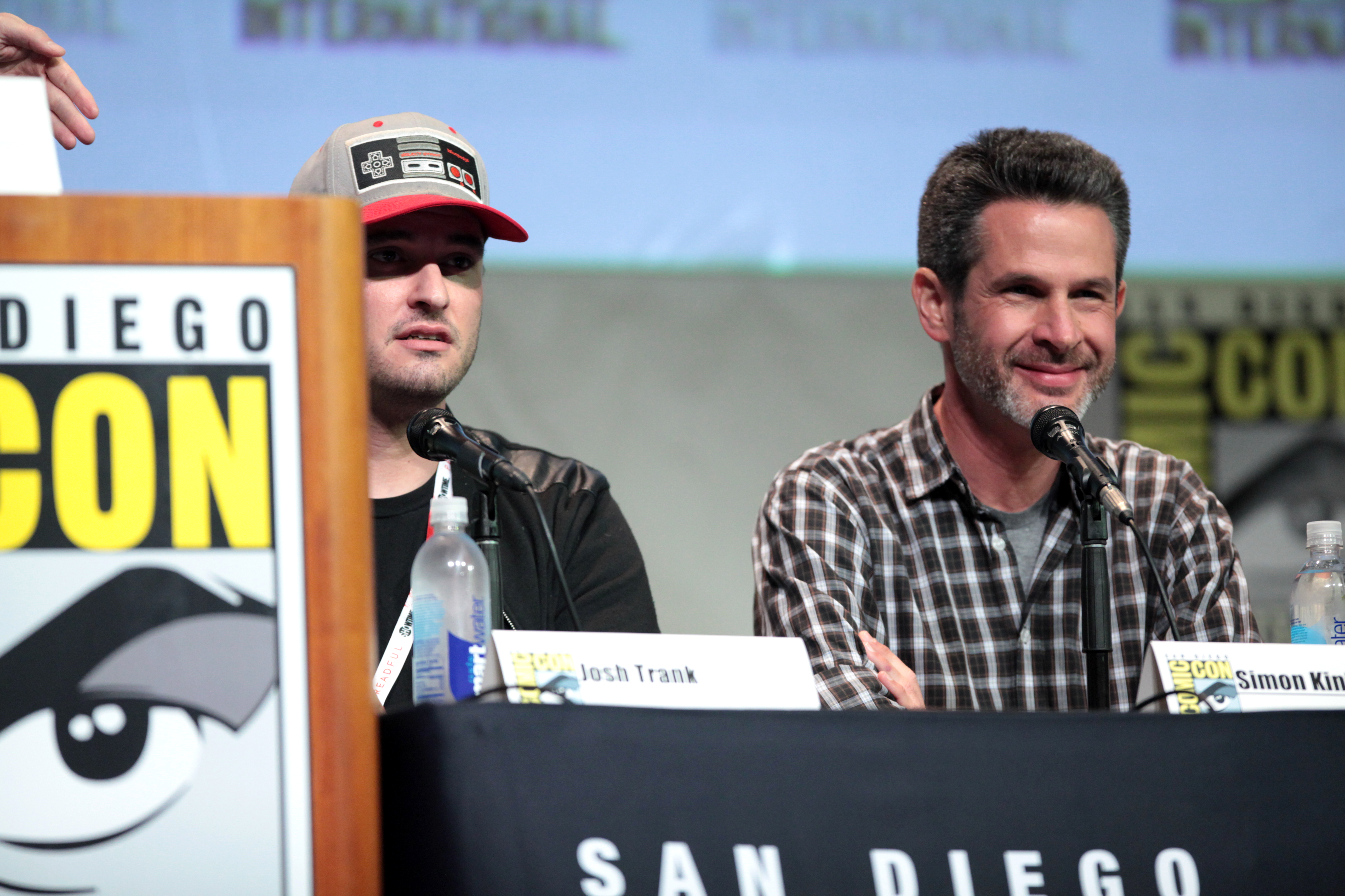 John Trank and Simon Kinberg speaking at the 2015 San Diego Comic Con International, for "Fantastic Four", at the San Diego Convention Center in San Diego, California.